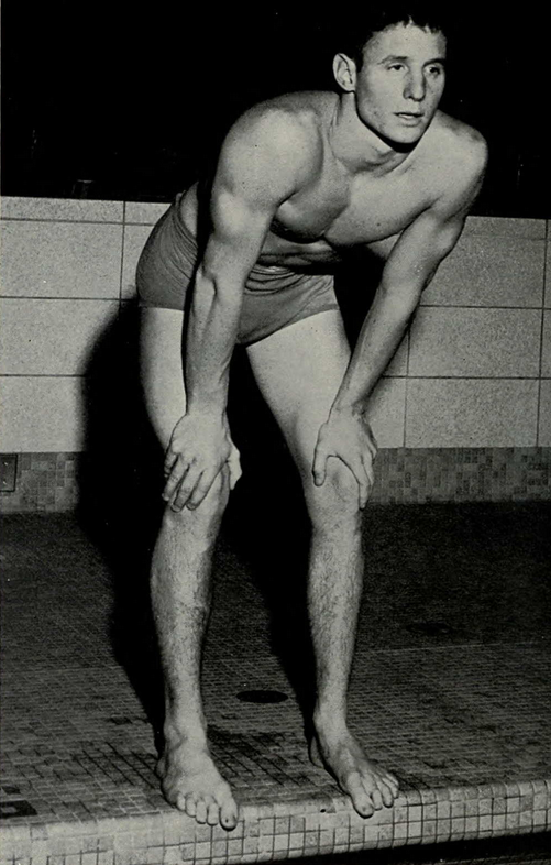 Photograph of Dick Hanley This work is in the public domain because it was published in the United States between 1925 and 1963 and although there may or may not have been a copyright notice, the copyright was not renewed. Unless its author has been dead for the required period, it is copyrighted in the countries or areas that do not apply the rule of the shorter term for US works, such as Canada (50 pma), Mainland China (50 pma, not Hong Kong or Macao), Germany (70 pma), Mexico (100 pma), Switzerland (70 pma), and other countries with individual treaties. See Commons:Hirtle chart for further explanation. This work is in the public domain in the United States because it was published in the United States between 1925 and 1977, inclusive, without a copyright notice. For further explanation, see Commons:Hirtle chart as well as a detailed definition of "publication" for public art. Note that it may still be copyrighted in jurisdictions that do not apply the rule of the shorter term for US works (depending on the date of the author's death), such as Canada (50 p.m.a.), Mainland China (50 p.m.a., not Hong Kong or Macao), Germany (70 p.m.a.), Mexico (100 p.m.a.), Switzerland (70 p.m.a.), and other countries with individual treaties.